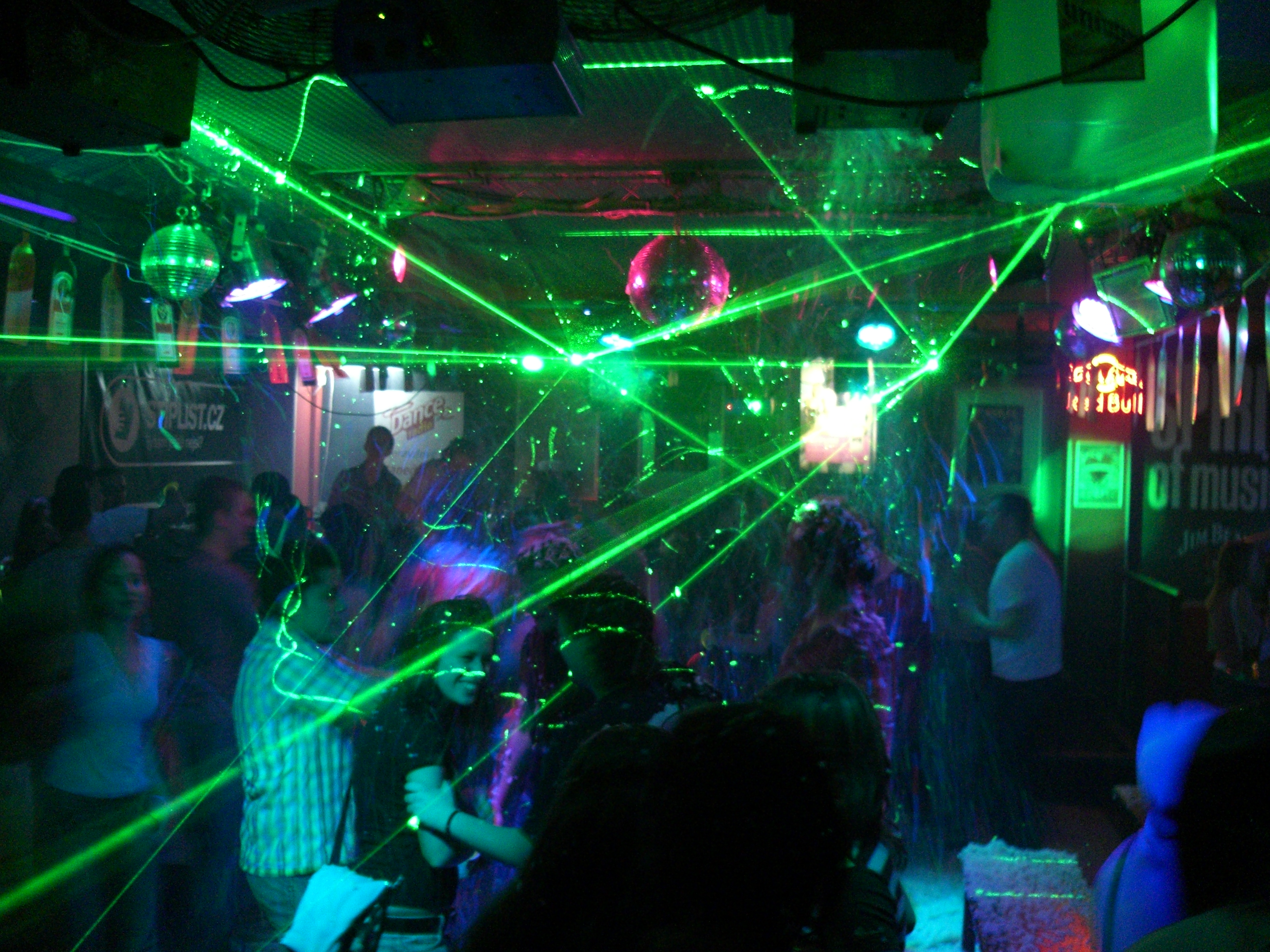 Laser show in one Prague's club, Czech Republic.